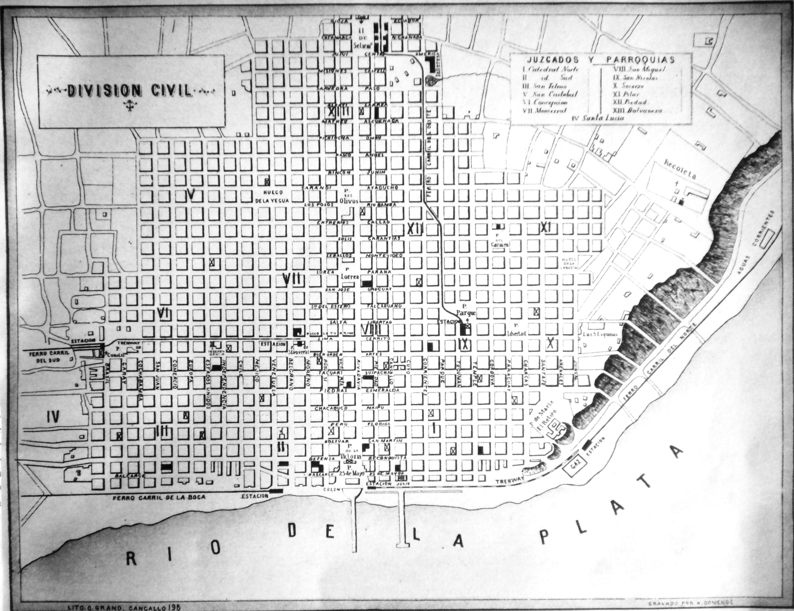 Map of the civil division of the city of Buenos Aires (black and white version).